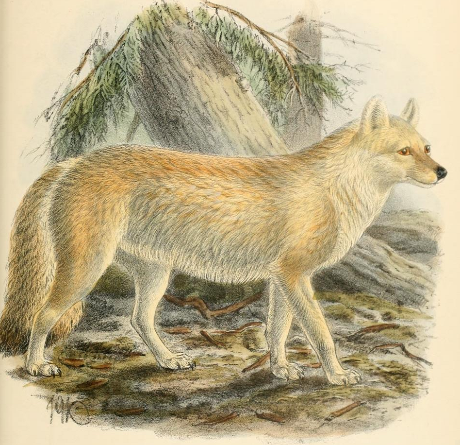 Engraving of a dhole by J. G. Keulemans